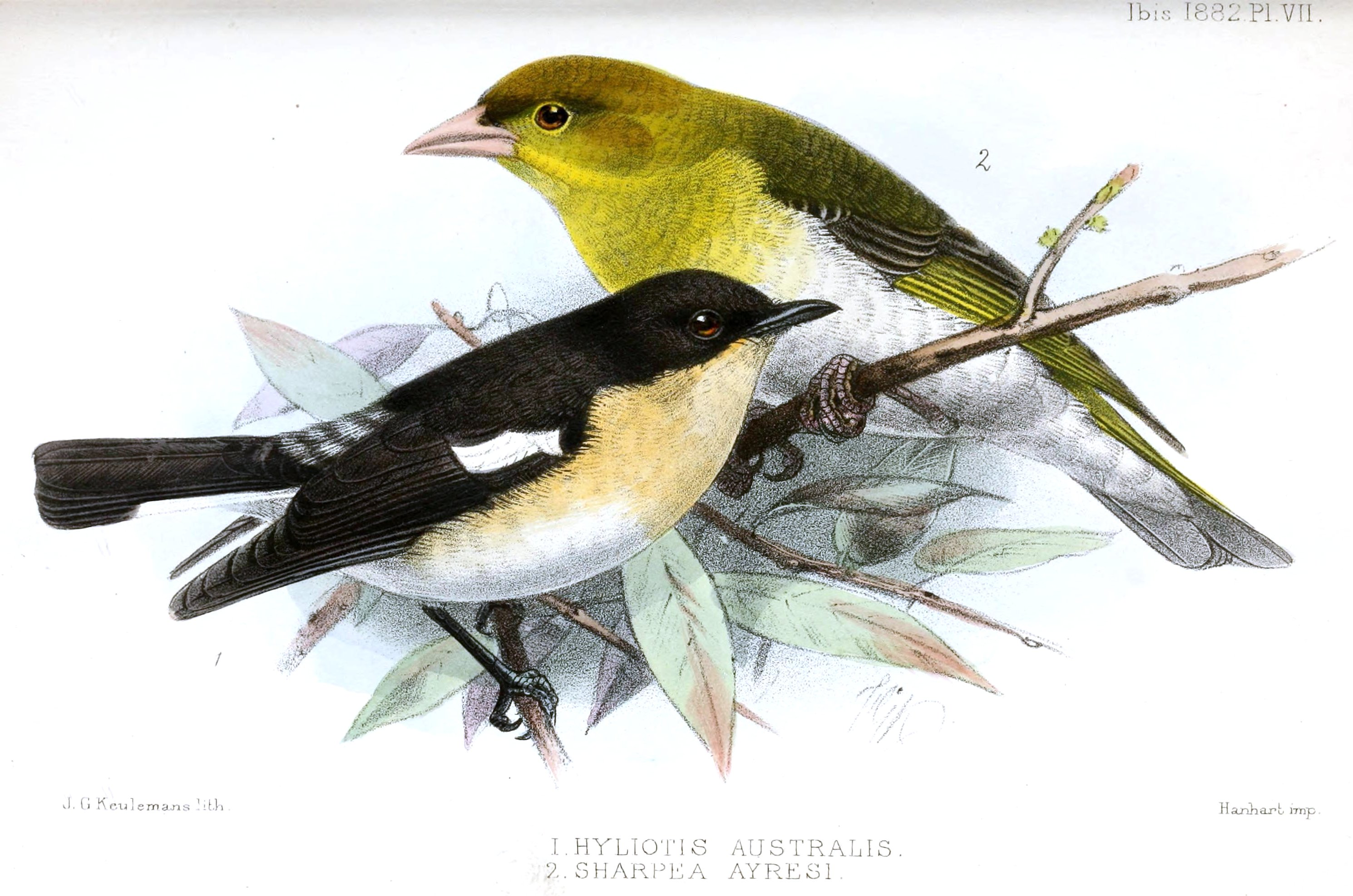 1. « Hyliotis australis » = Hyliota australis (Southern hyliota) 2. « Sharpea ayresi » = Anaplectes rubriceps (Red-headed weaver)